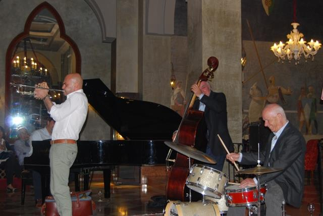 Gianni Cazzola 4et feat Luciano Milanese, Verona, May 2014